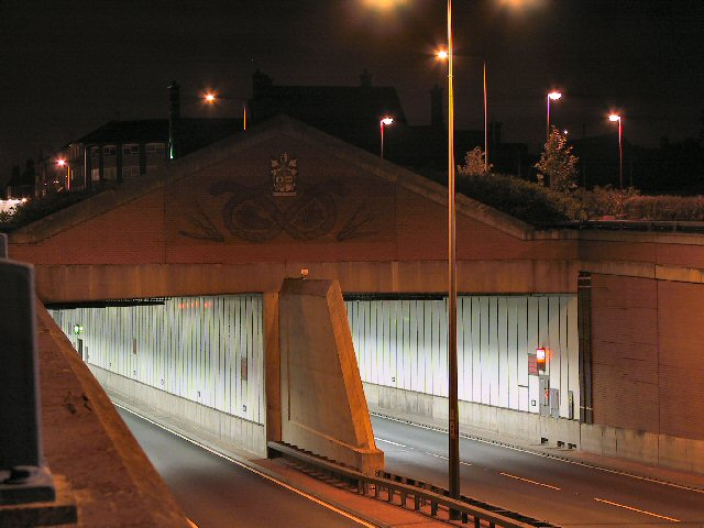 FlyUnder. The Meir Underpass, on the A50 at Stoke. Constructed in 1998, it eased considerably the congestion at this notorious bottleneck.